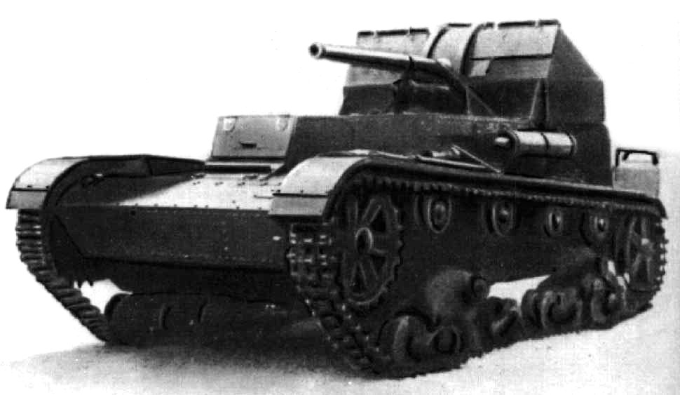 Self-propelled gun SU-5-1 based on T-26 light tank chassis